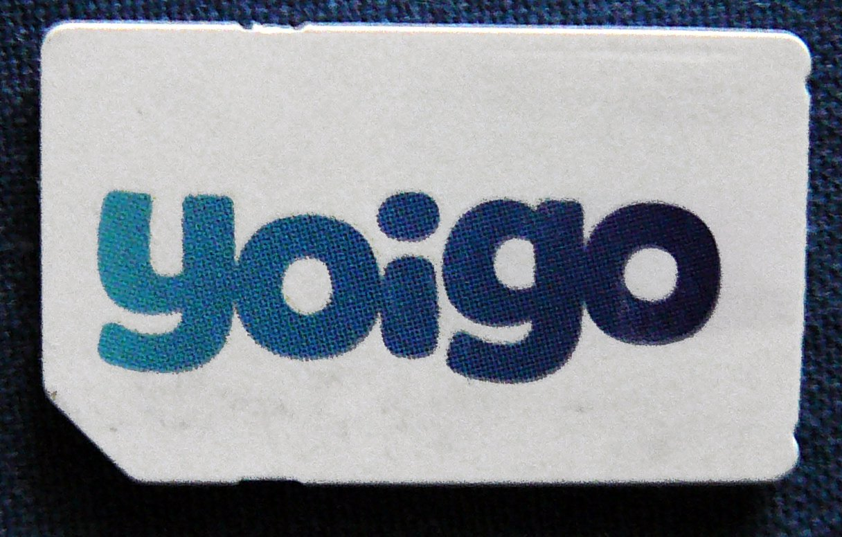 Yoigo SIM card with logo